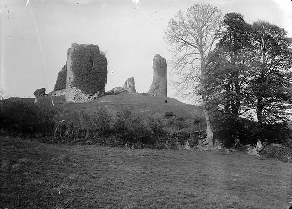 1 negative : glass, dry plate, b&w ; 12 x 16.5 cm.